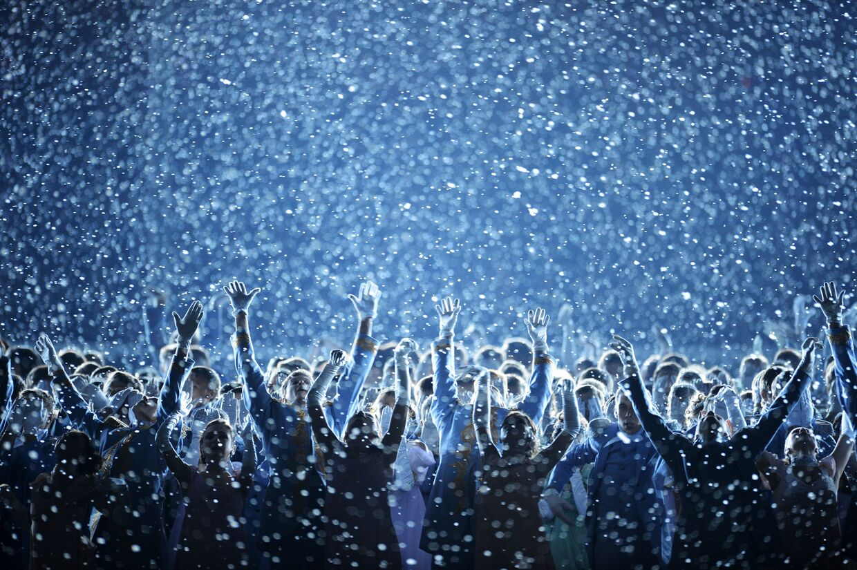 At the Opening Ceremony for the XXII Olympic Winter Games.